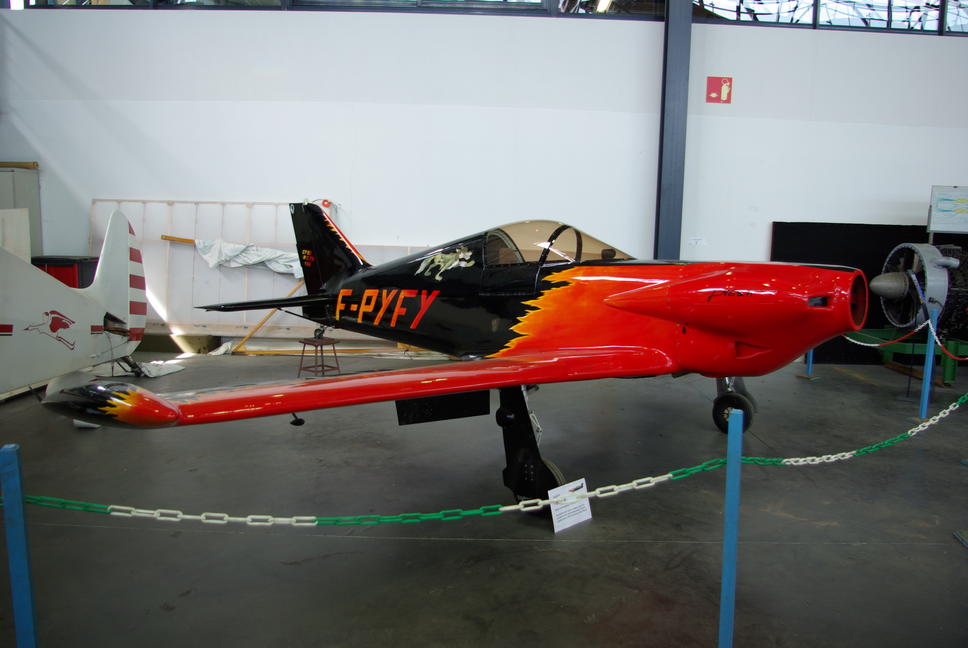 A Piel CP80 at the air museum of angers-Mercé (France).